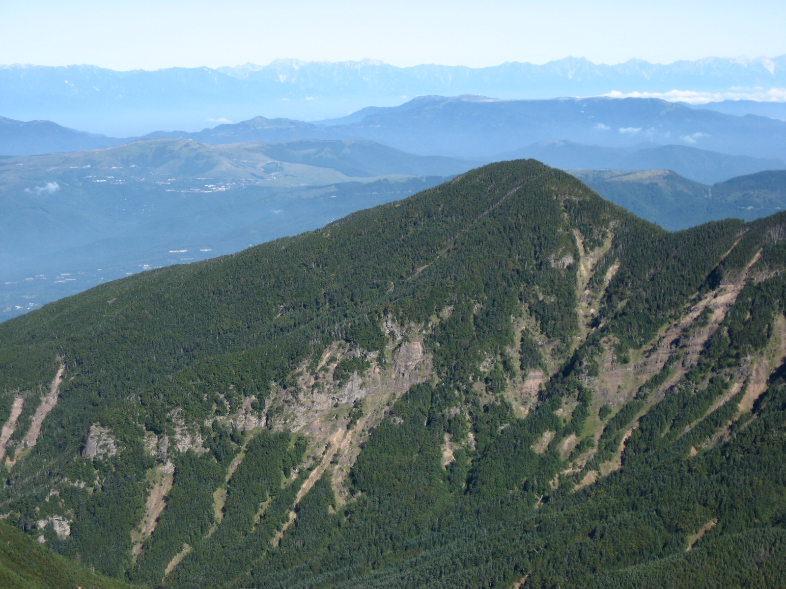 Mount Minenomatsume